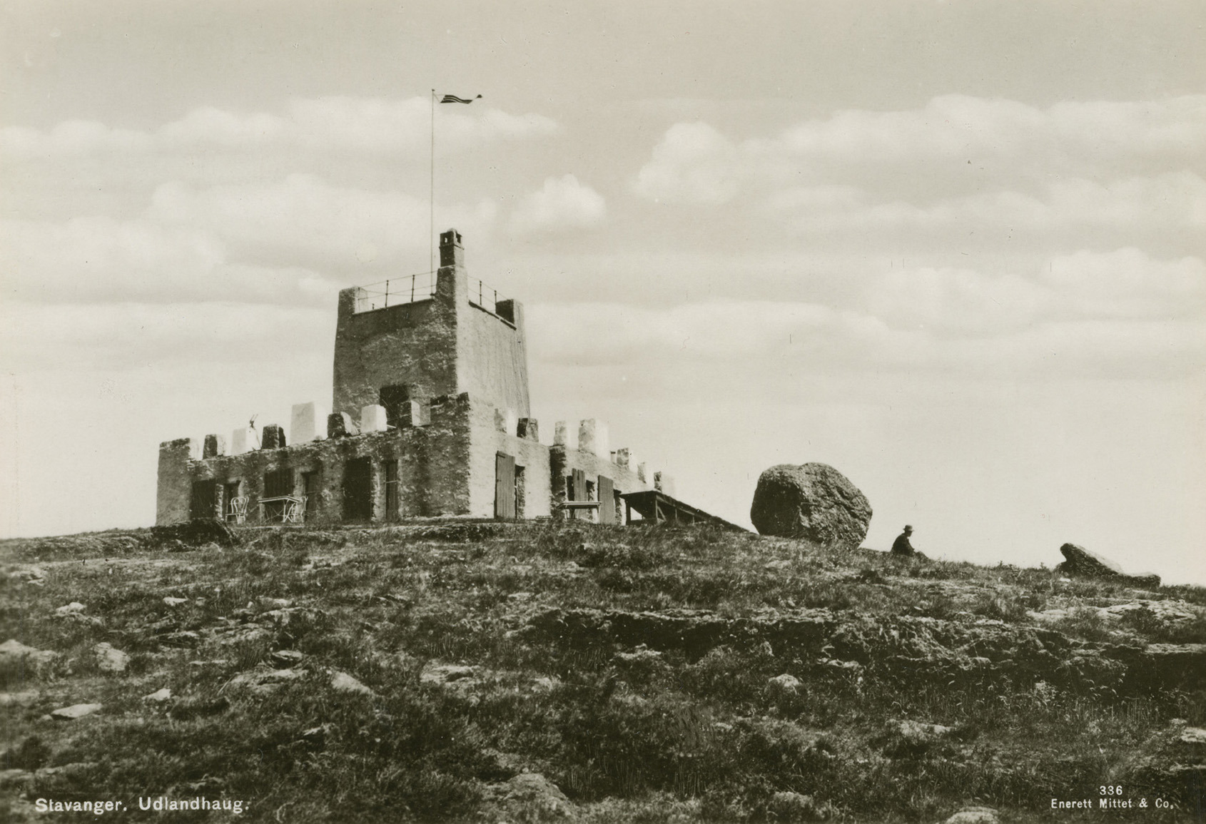 Harald's tower, Ullandhaug, Stavanger, Norway